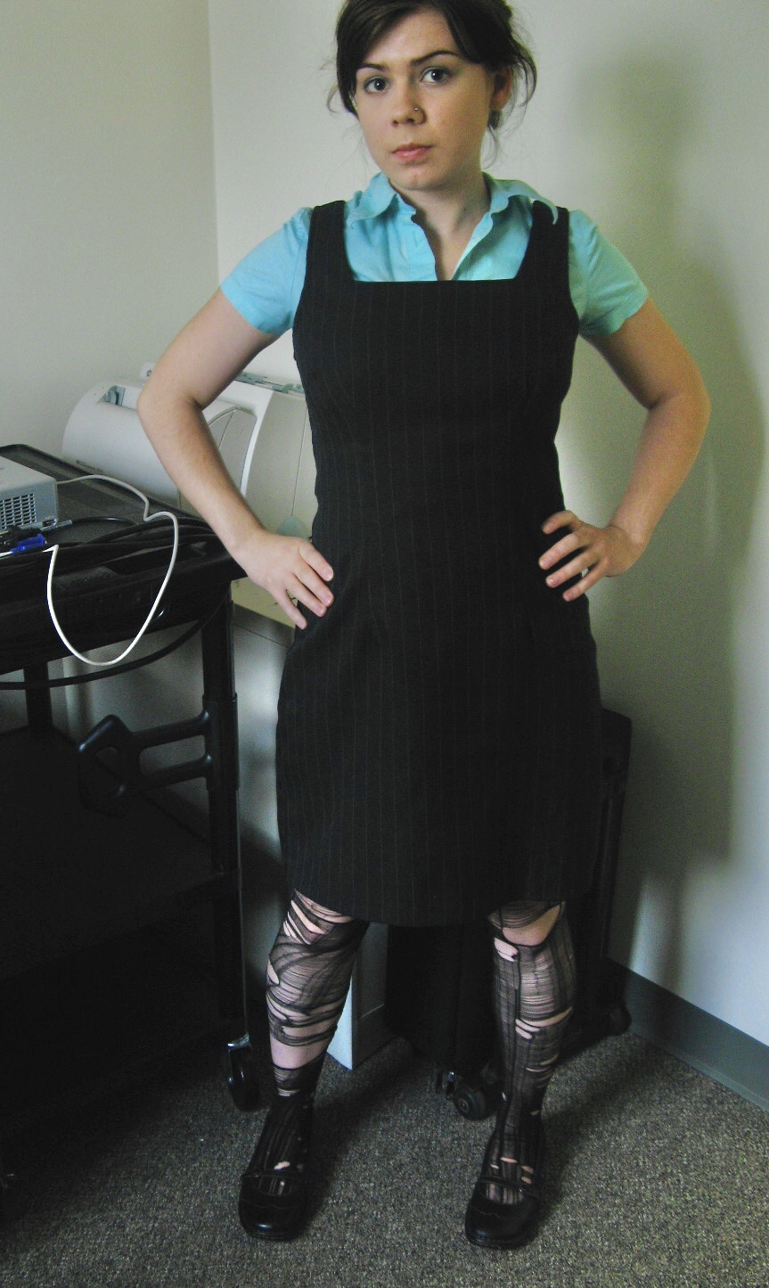 Woman wearing a black jumper dress over a blue blouse.